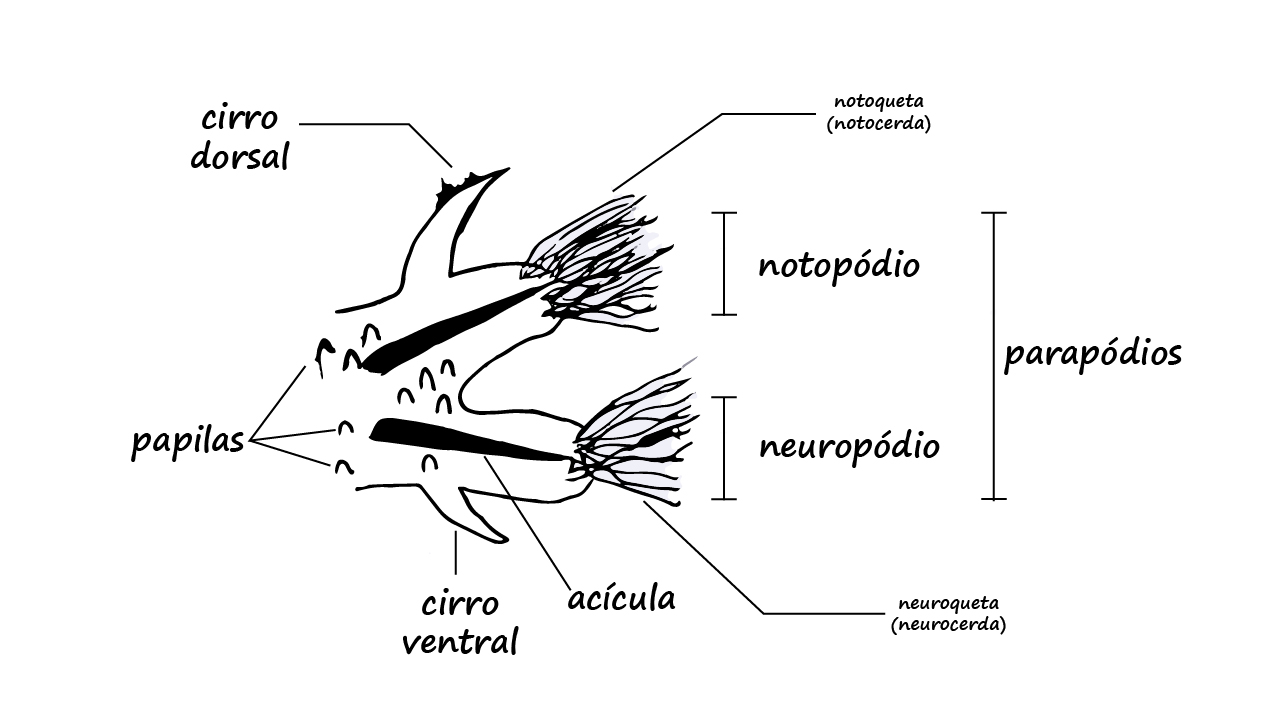 Schematic representation of parapodia in scale-worms